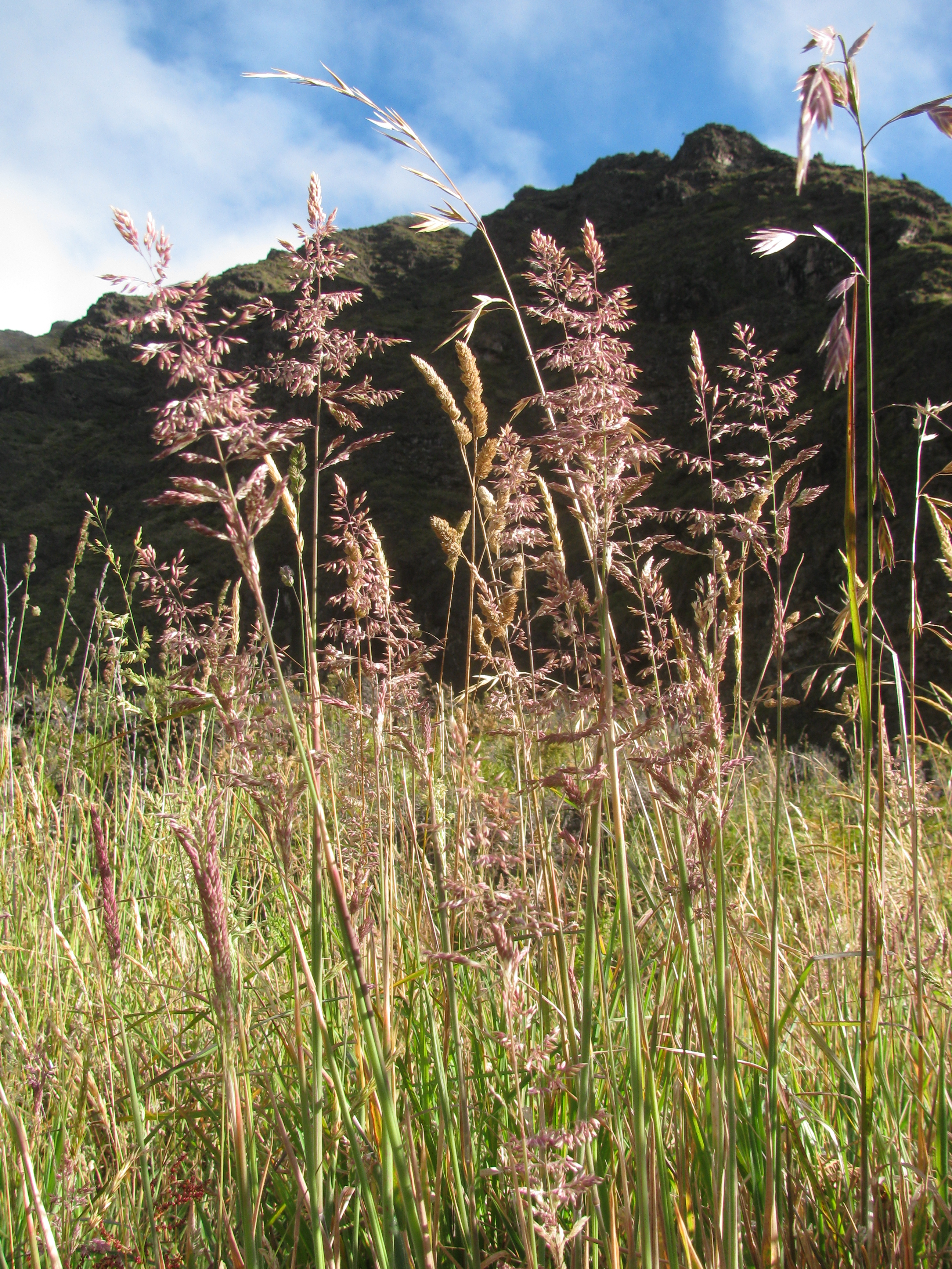 Holcus lanatus (Yorkshire fog) Seedheads at Halemauu Trail Haleakala National Park, Maui, Hawaii. July 13, 2011 #110713-7090 Image Use Policy